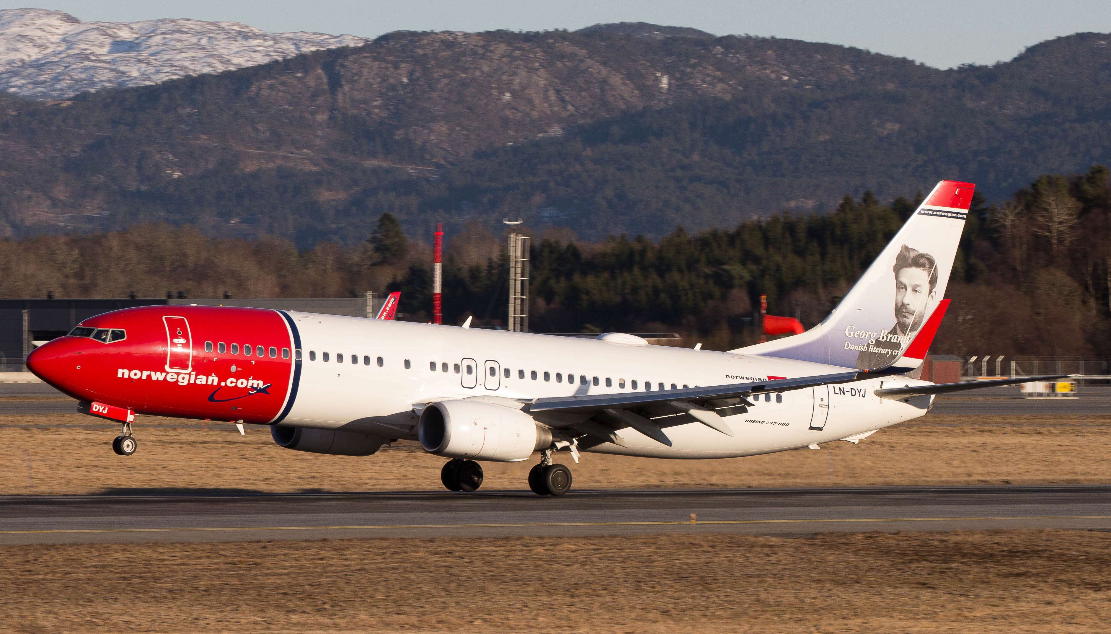 Boeing 737-800